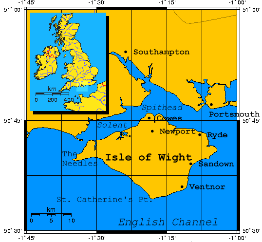 Isle of Wight. Created using PD and GFDL sources: US Government datasets, GMT software, and GIMP in Linux: GMT is an open source collection of ~60 tools for manipulating geographic and Cartesian data sets (including filtering, trend fitting, gridding, projecting, etc.) and producing Encapsulated PostScript File (EPS) illustrations ranging from simple x-y plots via contour maps to artificially illuminated surfaces and 3-D perspective views. GMT supports ~30 map projections and transformations and comes with support data such as coastlines, rivers, and political boundaries. GMT is developed and maintained by Paul Wessel and Walter H. F. Smith with help from a global set of volunteers, and is supported by the National Science Foundation. It is released under the GNU General Public License ... data from the US national data centers (NOAA, USGS, NGDC, NEIC) can be used with GMT, and they are all freely available from these centers and individuals via the internet ...